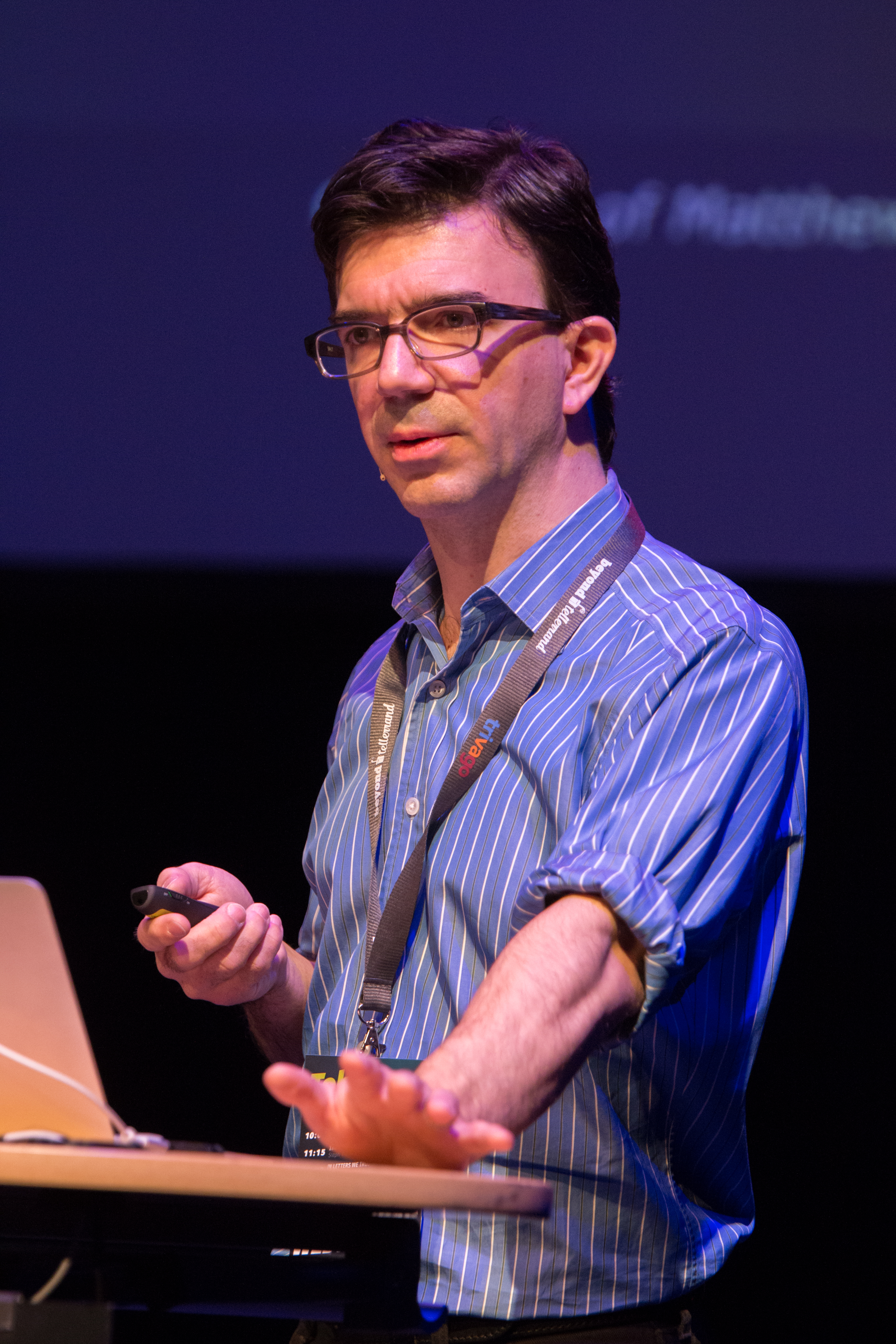 Tobias Frere-JonesTobias Frere-Jones at the Beyond Tellerand Berlin, 2015